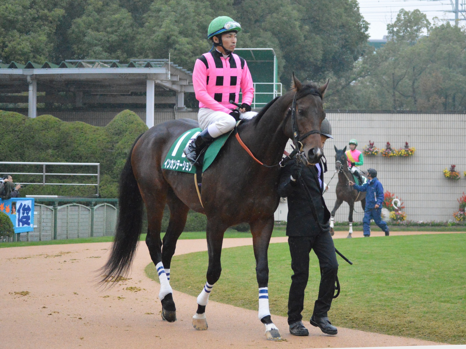 Japanese race horse Incantation at Kyoto racecourse. Kyoto (JPN) 03 Nov 2013 Miyako Stakes (Grade 3) (Dirt) (3yo+) 1m1f Standard RankHorse NameOddsAgeWgtTrainerJockey1stBrightline (JPN)16/5C48-11Ippo SameshimaYuichi Fukunaga2ndIncantation (JPN)156/10C38-9Tomohiko HatsukiTakuya Ono3rdRoman Legend (JPN)5/2FH59-4Hideaki FujiwaraYasunari Iwata4th - 16th/omission